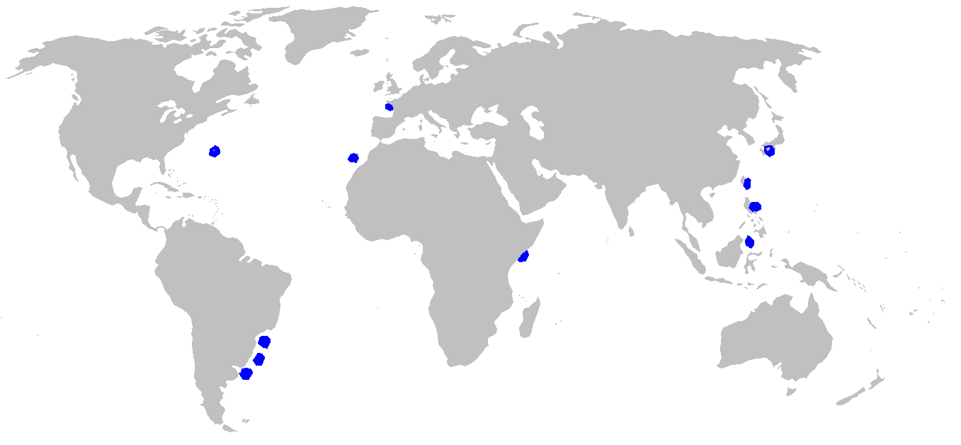 Distribution map for Squaliolus laticaudus